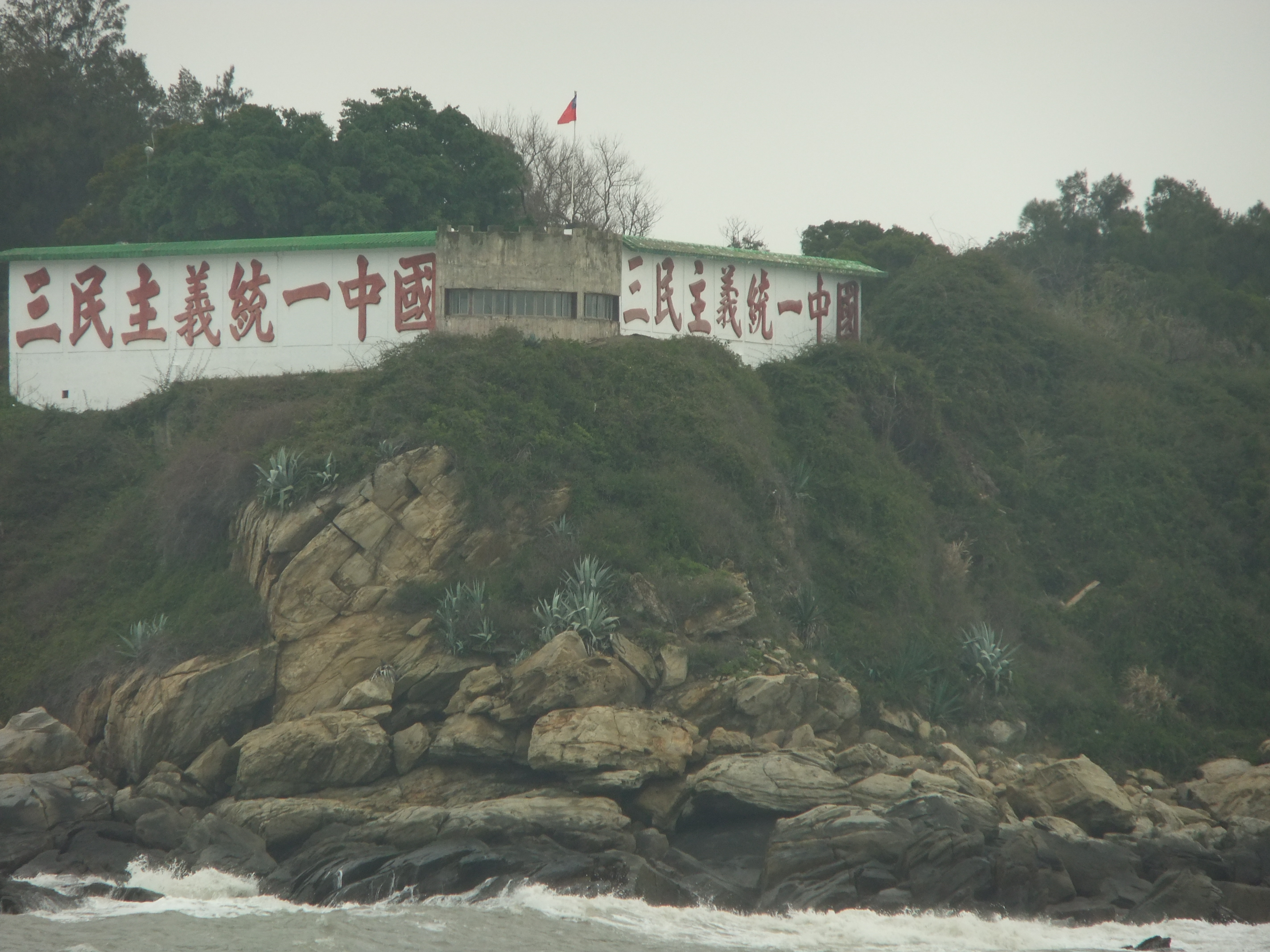 A R.O.C fortification on an offshore island west of Kinmen, with a "Three people's principles" and "One China" slogans.